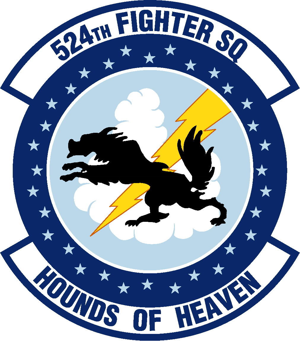 524th Fighter Squadron emblem